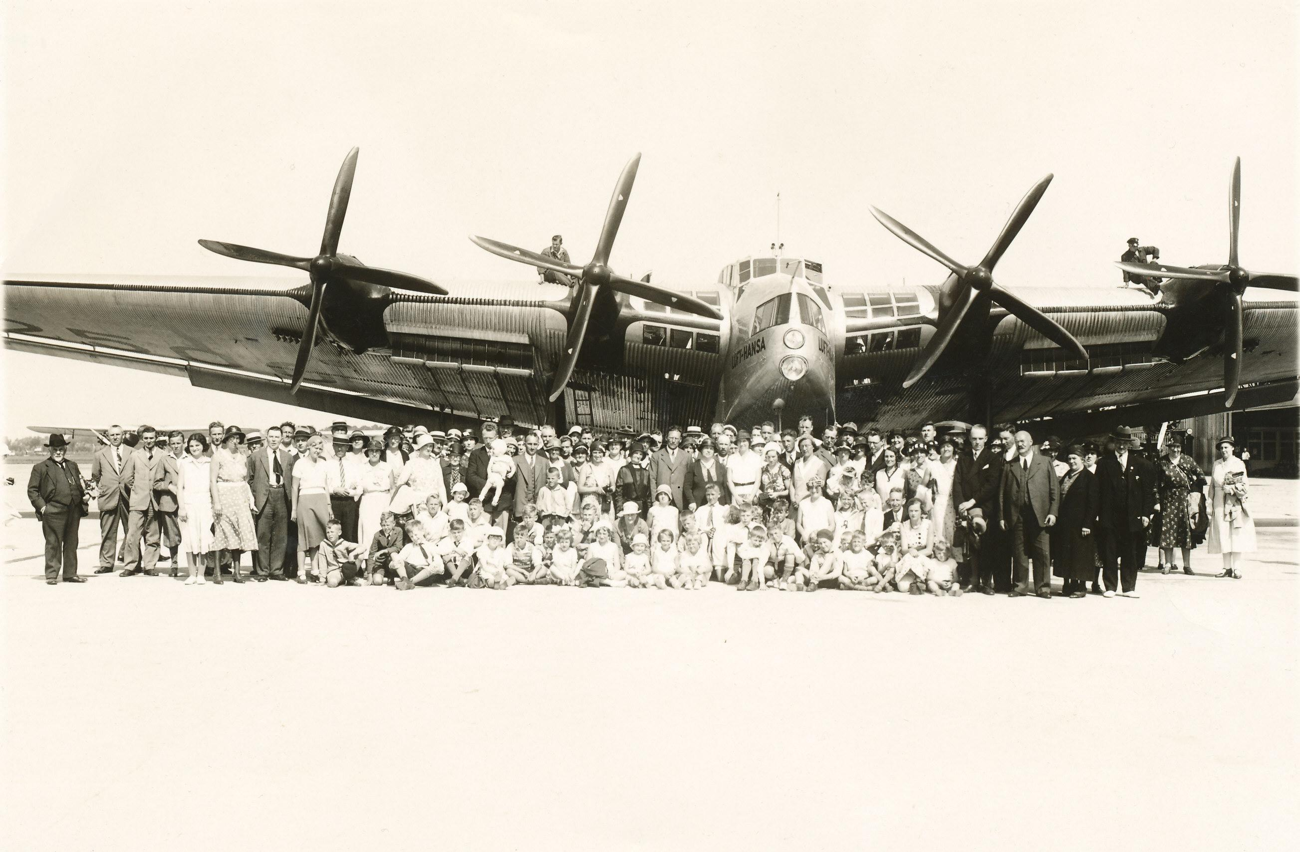 junkers G-38 D-2500 seen here at Schiphol Amsterdam this aircraft was destroyed on the ground in Athens May 1940 by an RAF raid